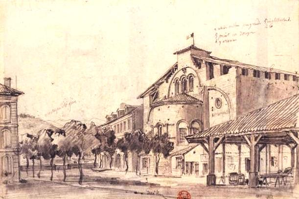 Picture of Sant Gaudenç